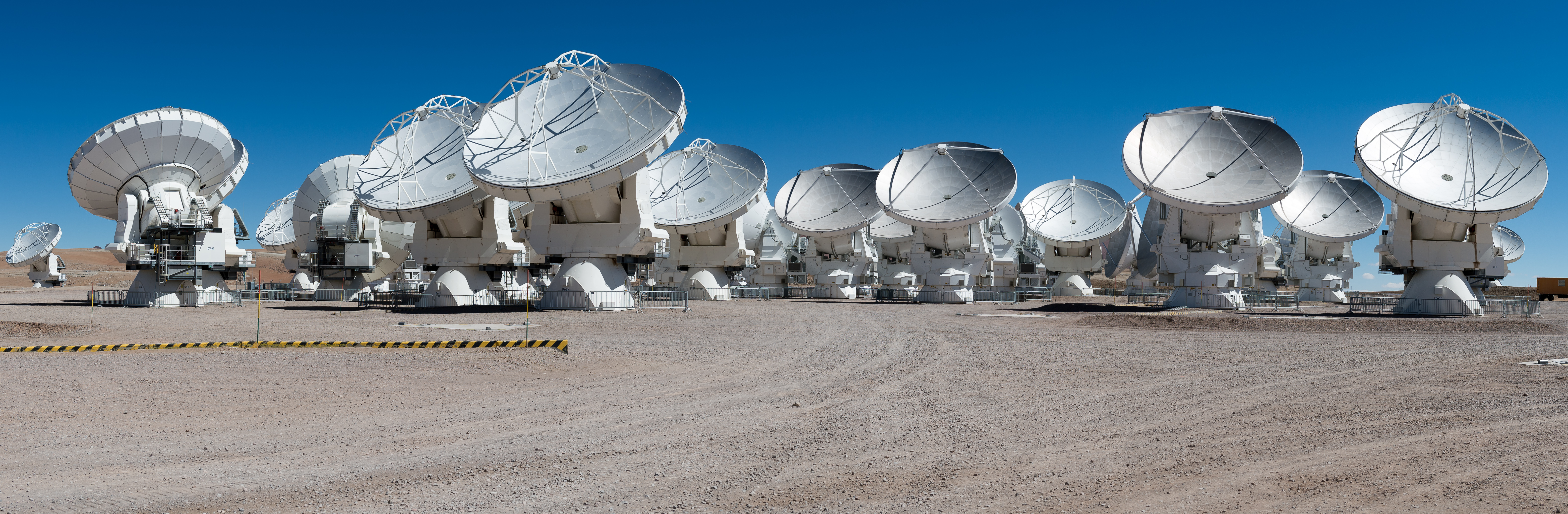 ALMA radio telescope; antennas in compact configuration.